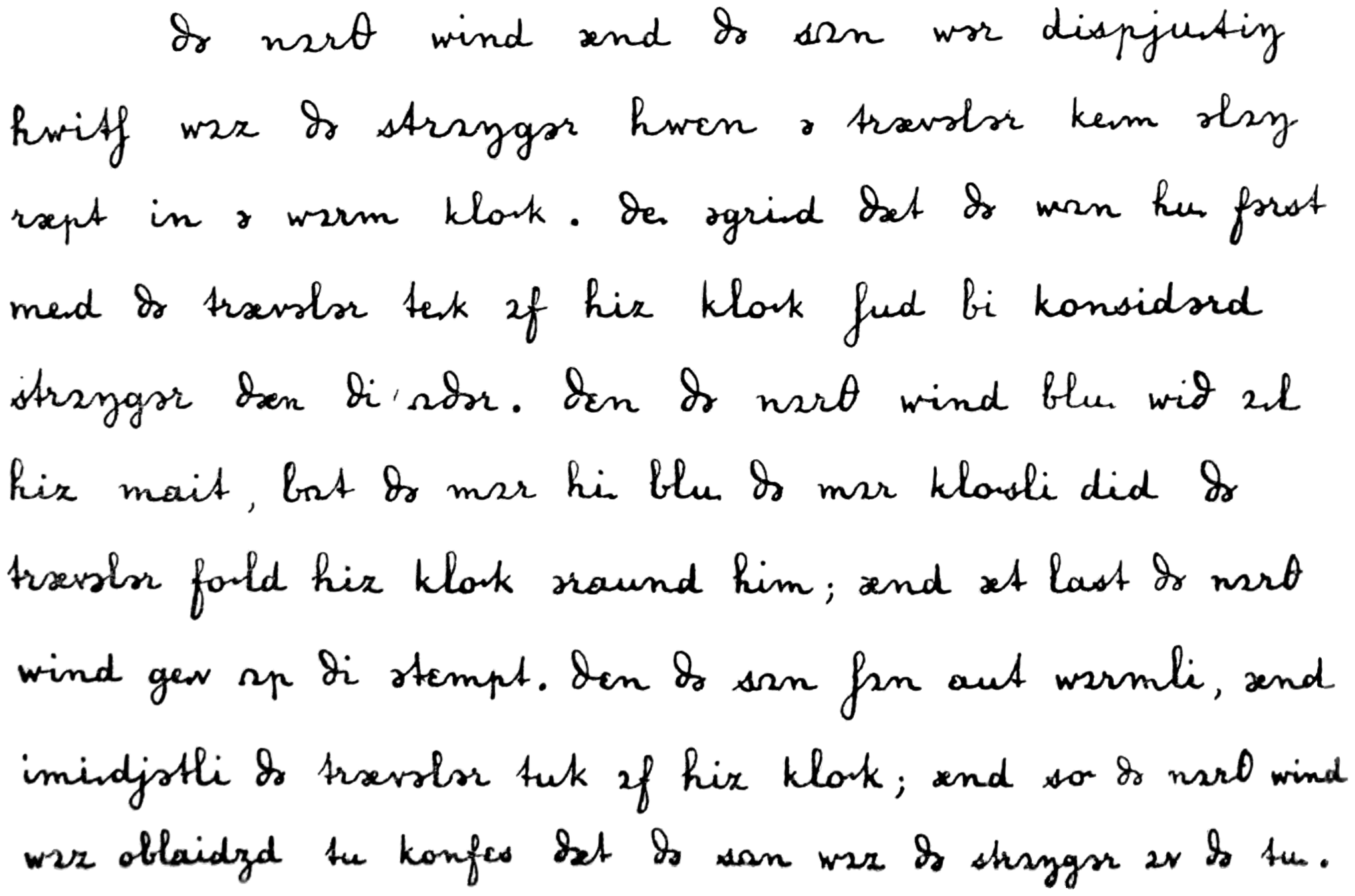 Sample of cursive IPA, from the 1912 handbook. The passage is 'The North Wind and the Sun' transcribed from 'Northern English'